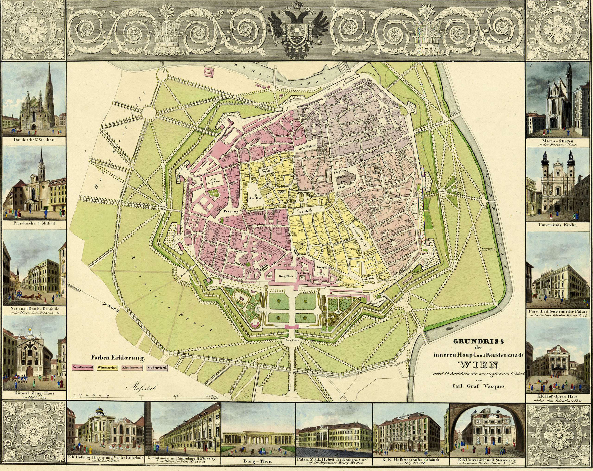 Map of Vienna, Inner City, ca. 1830